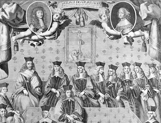 XIR238798 Session of the Grands Jours d'Auvergne, 26th September 1665 (engraving) by French School, (17th century); Bibliotheque Nationale, Paris, France; (add. info.: re-establishment of justice in Clermont-Ferrand; Monsieur le President M. Potier de Novion); Giraudon; French, out of copyright